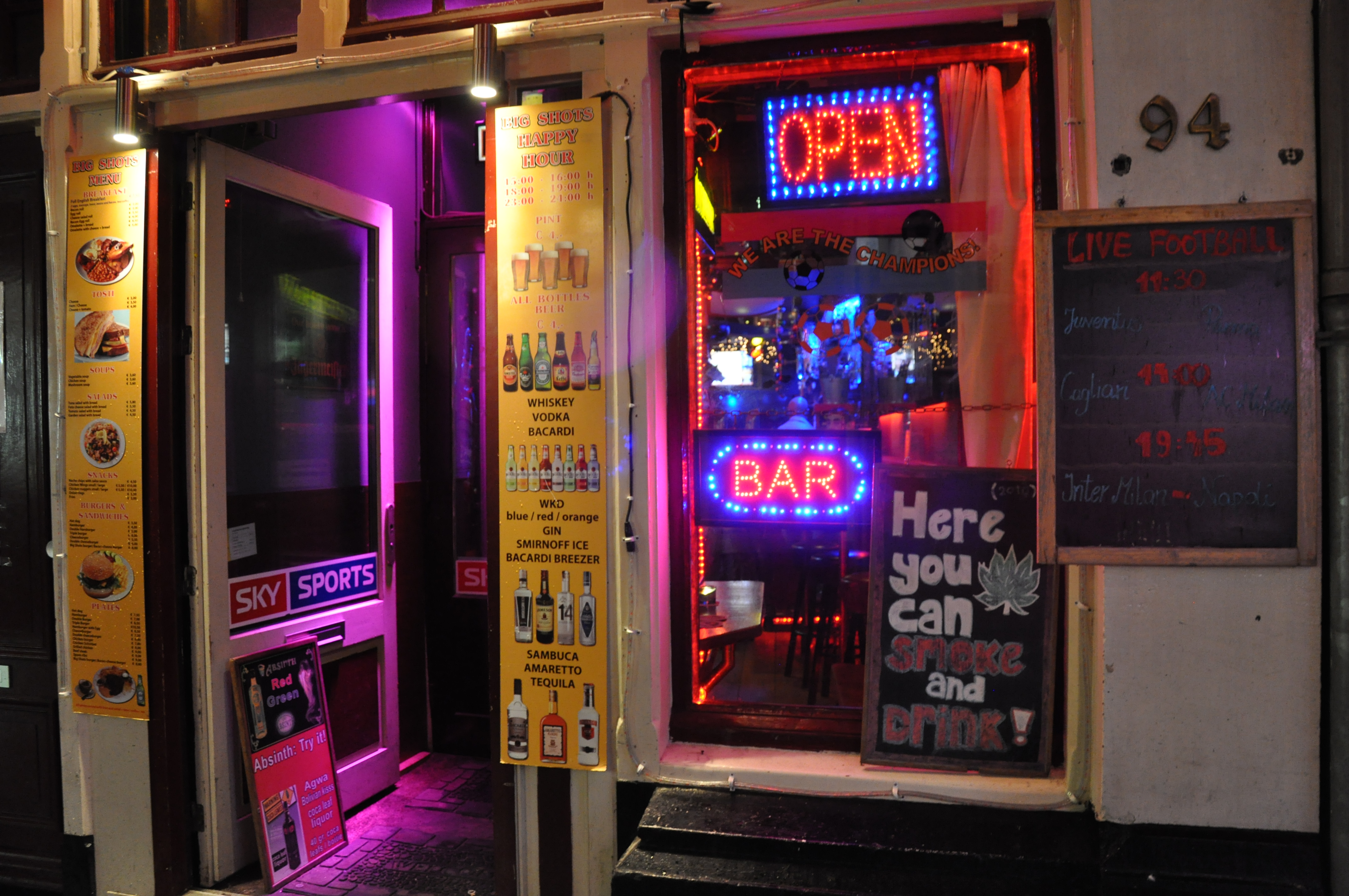 Coffeeshops are establishments in the Netherlands where the sale of cannabis for personal consumption by the public is tolerated by the local authorities (in Dutch called gedoogbeleid). Under the drug policy of the Netherlands, the sale of cannabis products in small quantities is allowed by 'licensed' coffee shops. The majority of these "coffeeshops" (in Dutch written as one word) also serve drinks and food. Coffeeshops are not allowed to serve alcohol (although in the past some coffeeshops in central Amsterdam have transgressed this law without reproach) or other drugs, and risk closure if they are found to be selling soft drugs to minors, hard drugs or selling alcohol without a license. The idea of coffeeshops was introduced in the 1970s for the explicit purpose of keeping hard and soft drugs separated. In the Netherlands, 105 of the 443 municipalities have at least one coffeeshop. Many at the borders sell mostly to foreigners (mostly from Belgium, Germany and France), who can also buy marijuana in their own countries, but prefer the legality and higher product quality of Dutch coffeeshops. In May 2011 the Dutch confirmed plans to ban foreigners from patronizing coffee shops, and to roll out the policy in the southern provinces of Limburg, Noord Brabant and Zeeland by the end of 2011 and the rest of the country in 2012. Coffeeshops become members-only clubs, while only adults living in the Netherlands can become a member. Dutch coffee houses not serving marijuana are called koffiehuis (literally "coffee house"), while a café is the equivalent of a bar.